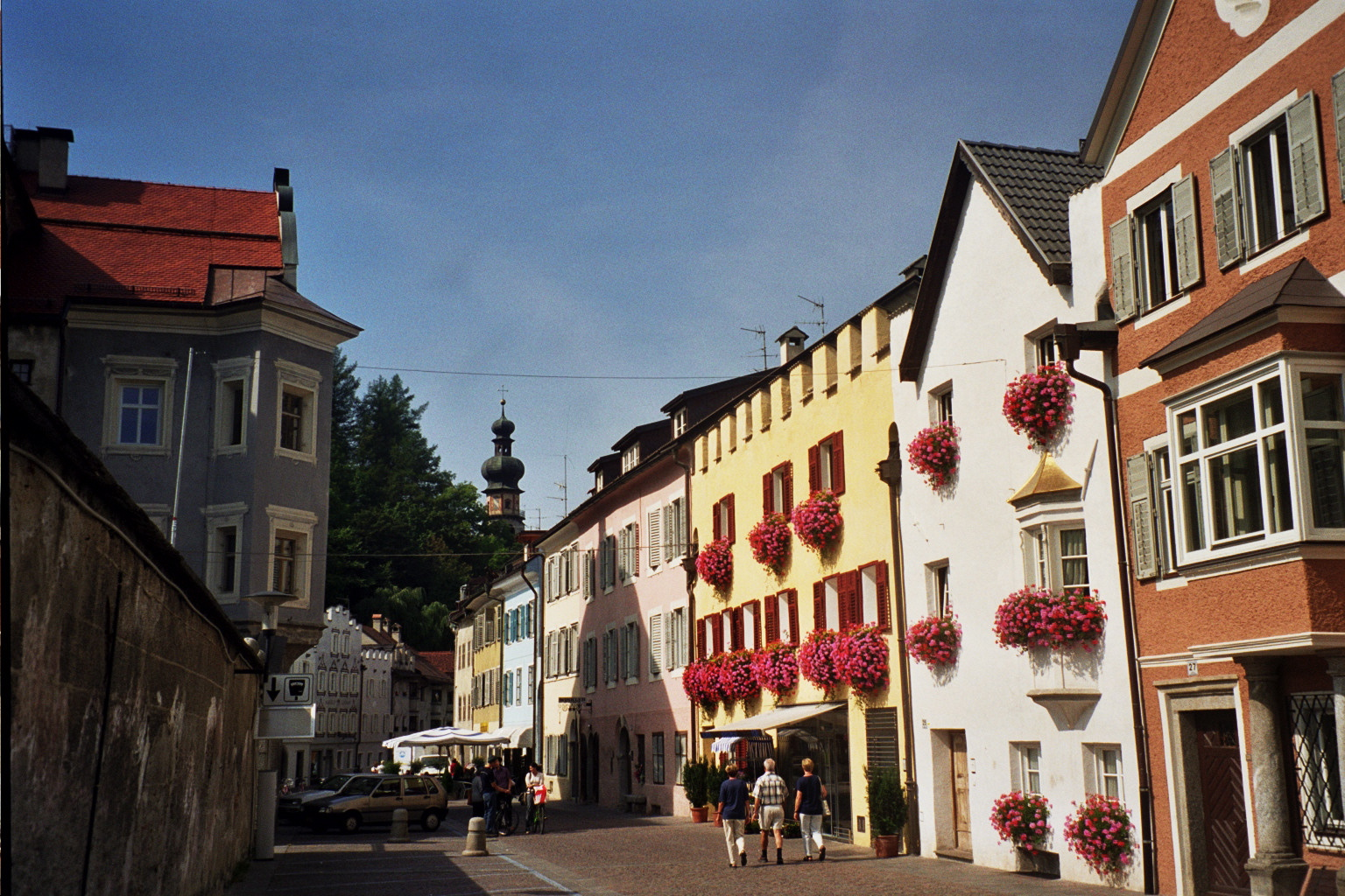 Brunico/Bruneck, South Tyrol, Italy. Pedestrian (walk-free) zone year